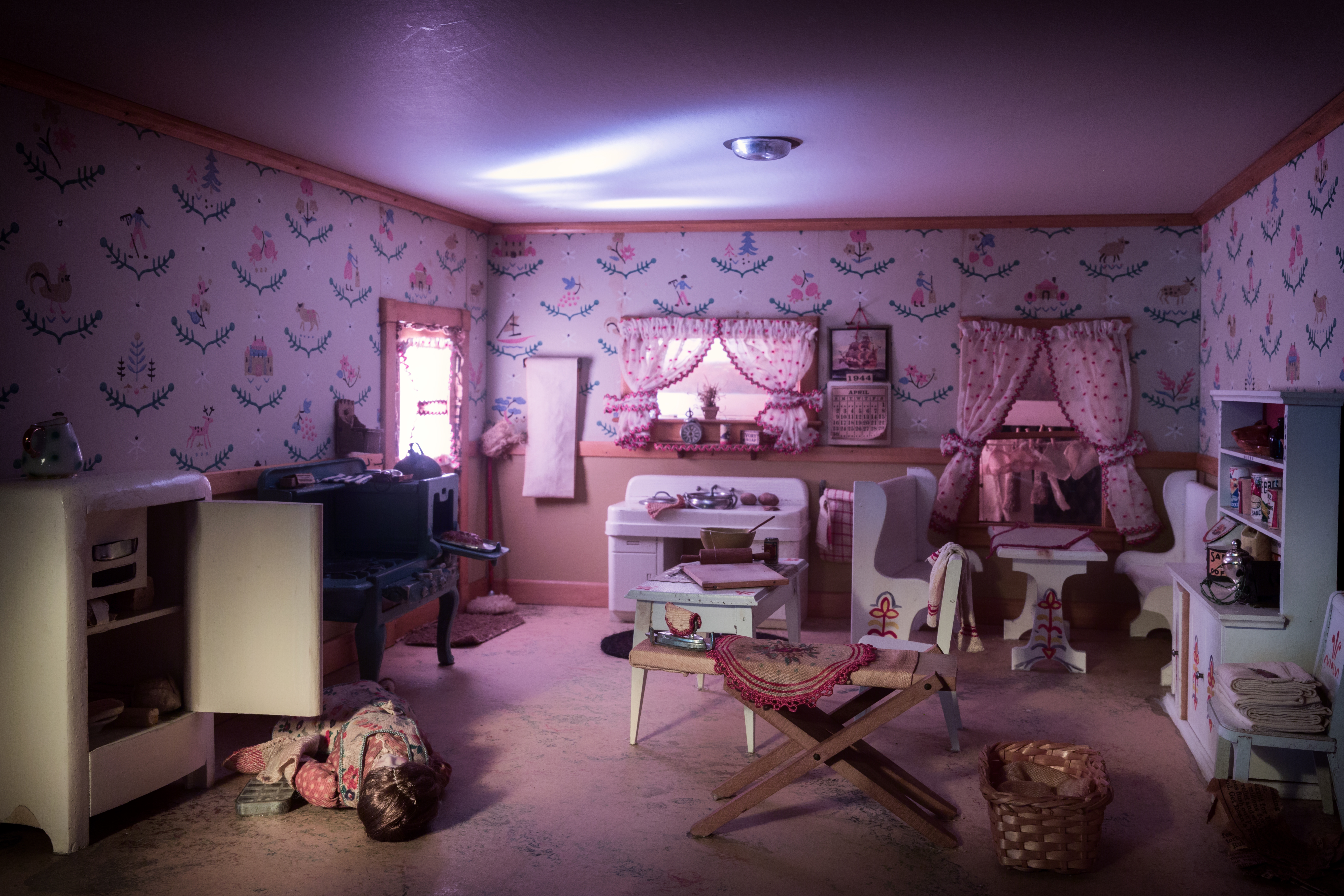 Description of events & information that accompany the Kitchen diorama: Reported to Nutshell Laboratories, Wednesday, April 12, 1944. Barbara Barnes, a housewife, was found dead by police who responded to a call from the husband of the victim, Fred Barnes, who gave the following statement: About 4 p.m. on the afternoon of Tuesday, April 11, 1944, he had gone downtown on an errand for his wife. He returned about an hour and a half later and found the outside door to the kitchen locked. It was standing open when he left. Mr. Barnes attempted knocking and calling but got no answer. He tried the front door but it was also locked. He then went to the kitchen window which was closed and locked. He looked in and saw what appeared to be his wife lying on the floor. He then summoned the police. The model shows the premises just before the police forced open the kitchen door.